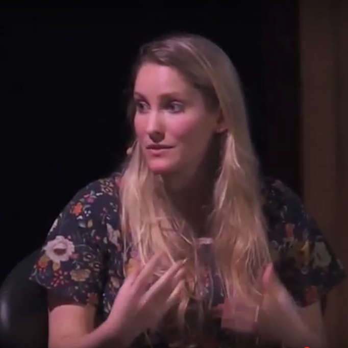 London Thinks Shouting Back Conway HallLaura Bates